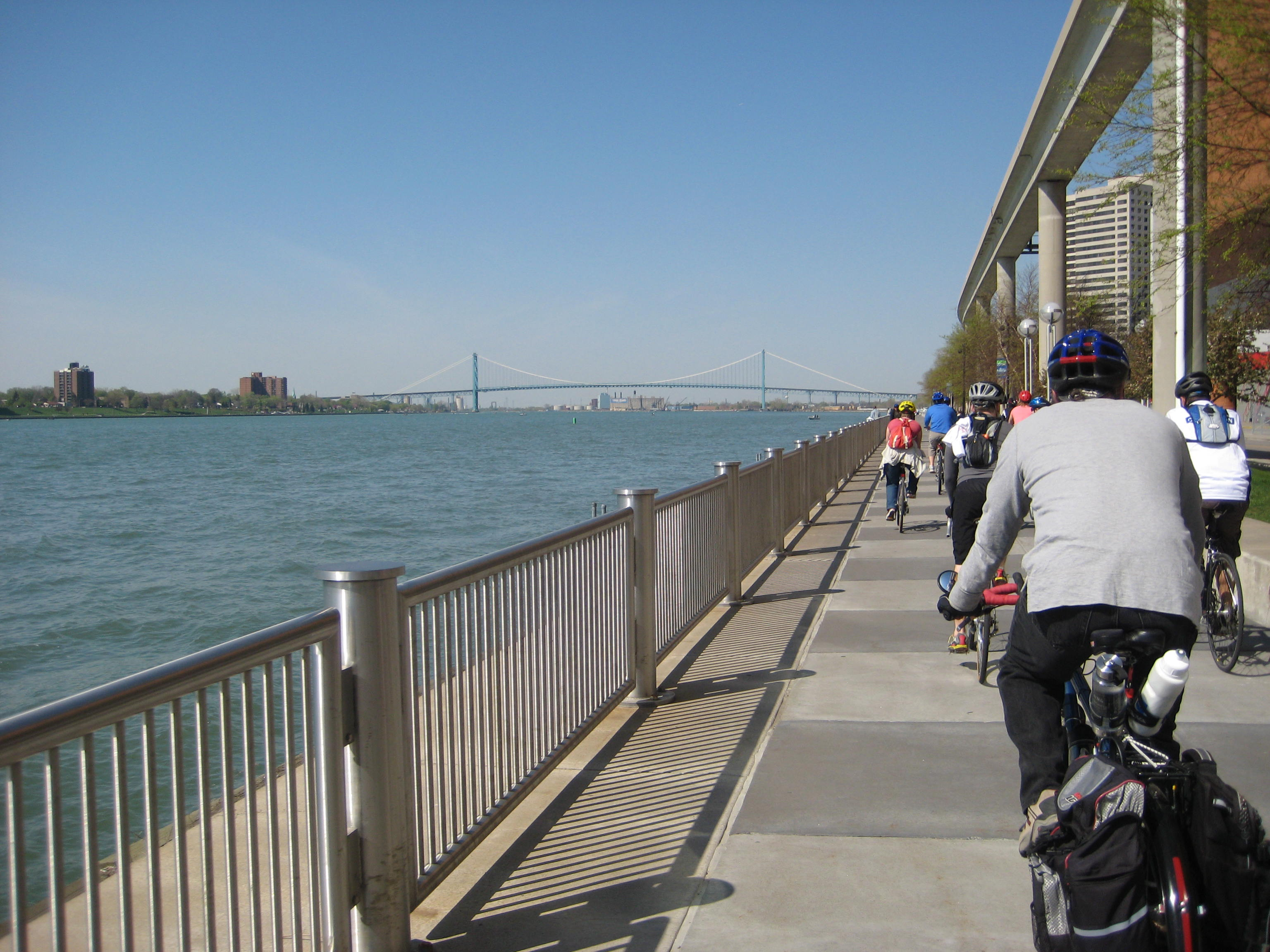 Bicycling on the Detroit River Walk near Cobo Hall.